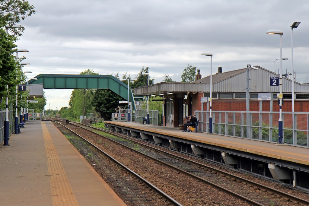 Platforms and footbridge, Bredbury railway station